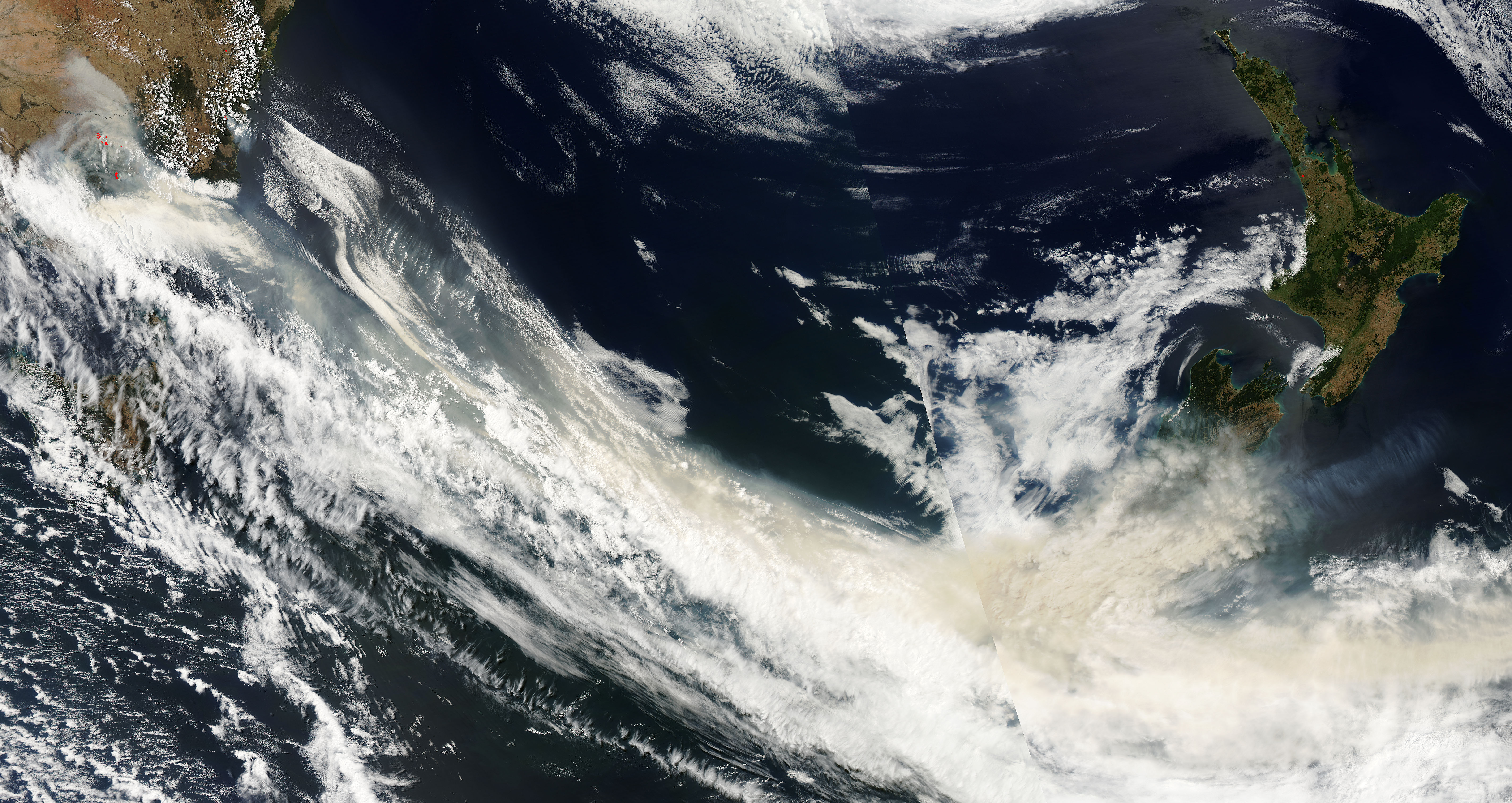 Smoke from the 2009 Victorian bushfires spreads over the Tasman Sea and New Zealand. The imagery was acquired by the Aqua satellite, and is at 500m resolution. The image was the MODIS picture of the day on 10 February 2009.